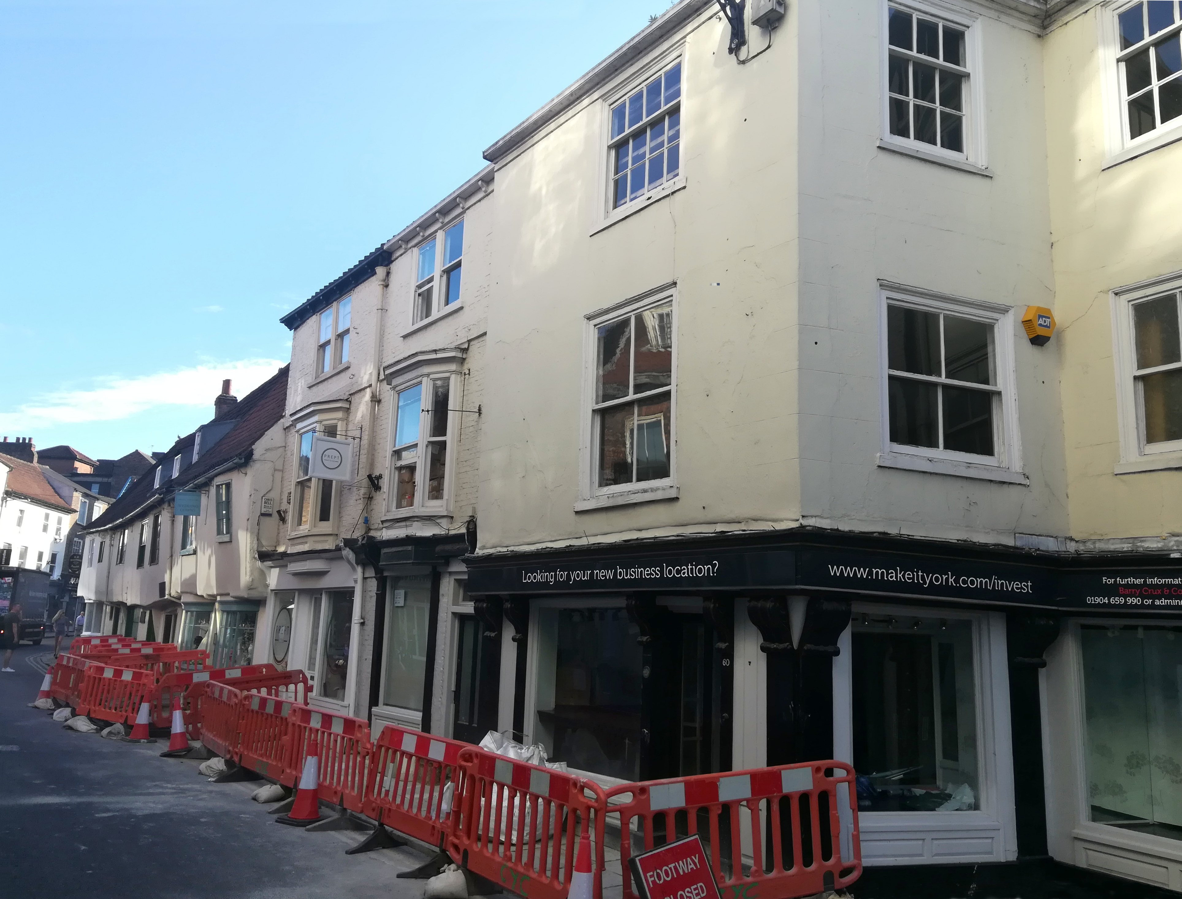 View of Lady Row, on Goodramgate in York, seen from the north